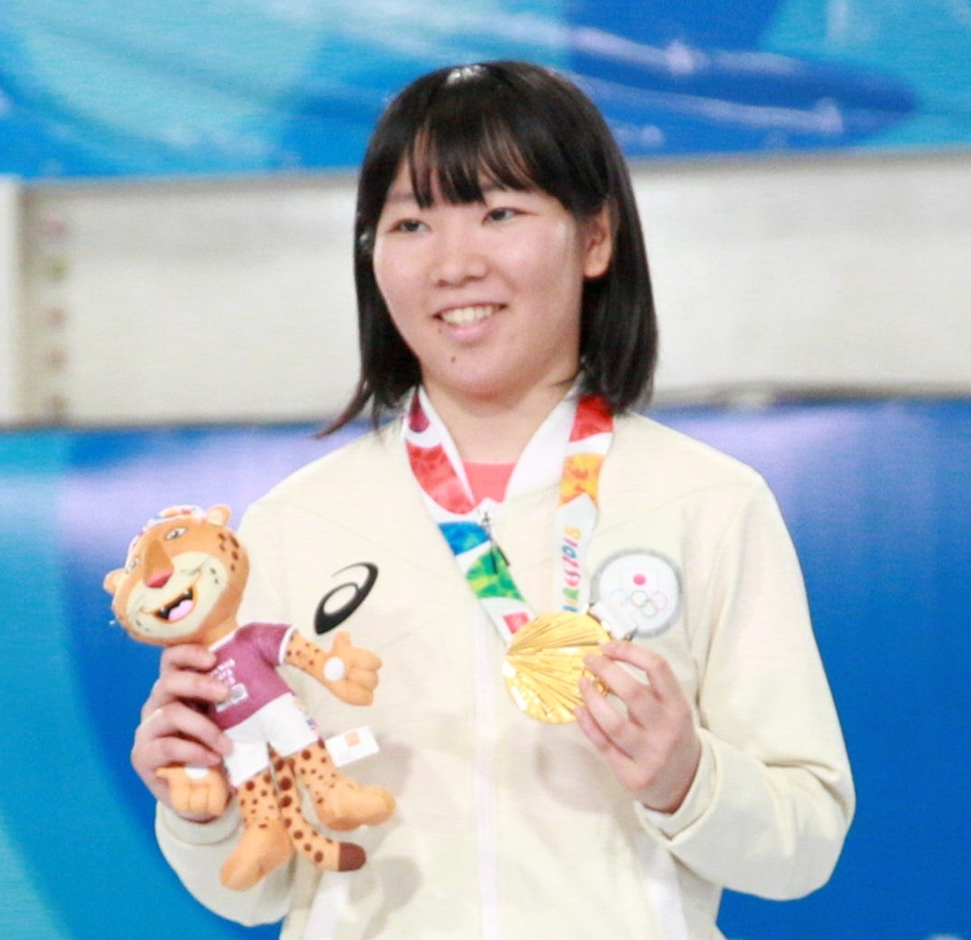 Fencing at the 2018 Summer Youth Olympics at 7 October 2018 – Girls' foil medail ceremony – Gold: Yuka Ueno (JPN), Silver: Martina Favaretto (ITA), Bronze: May Tieu (USA); Medal presenter: IOC member Britta Heidemann, Mascot presenter: FIE Vice president Donald Anthony Jr.